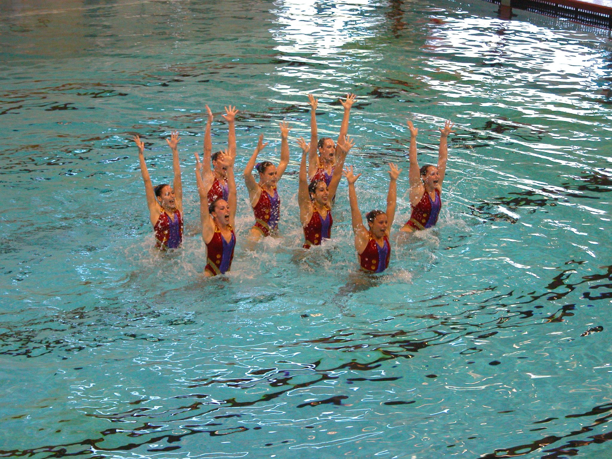 Canadian synchronized swimming team, competing in the Finnish Open, 2006